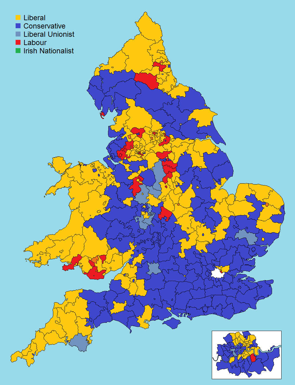 General election January 1910 map of England & Wales showing constituency winners